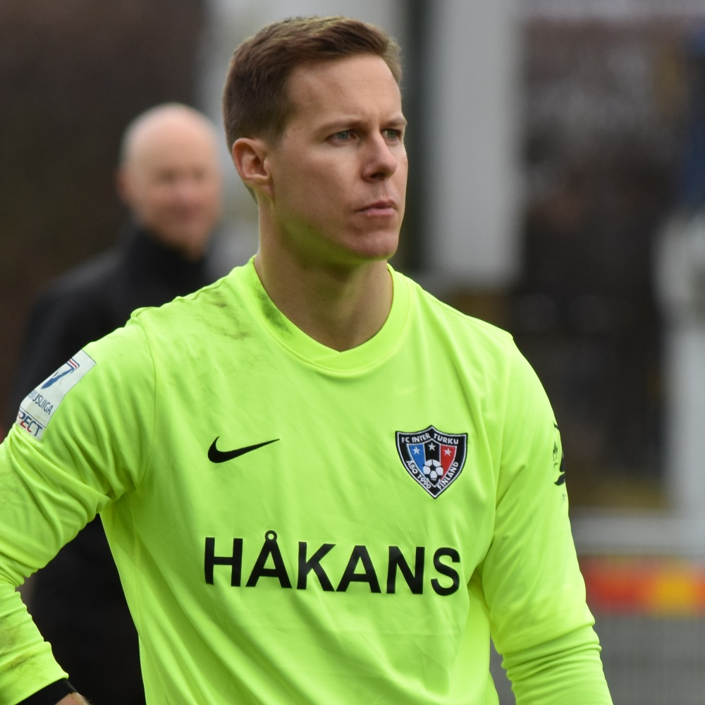 Football goalkeeper Henrik Moisander